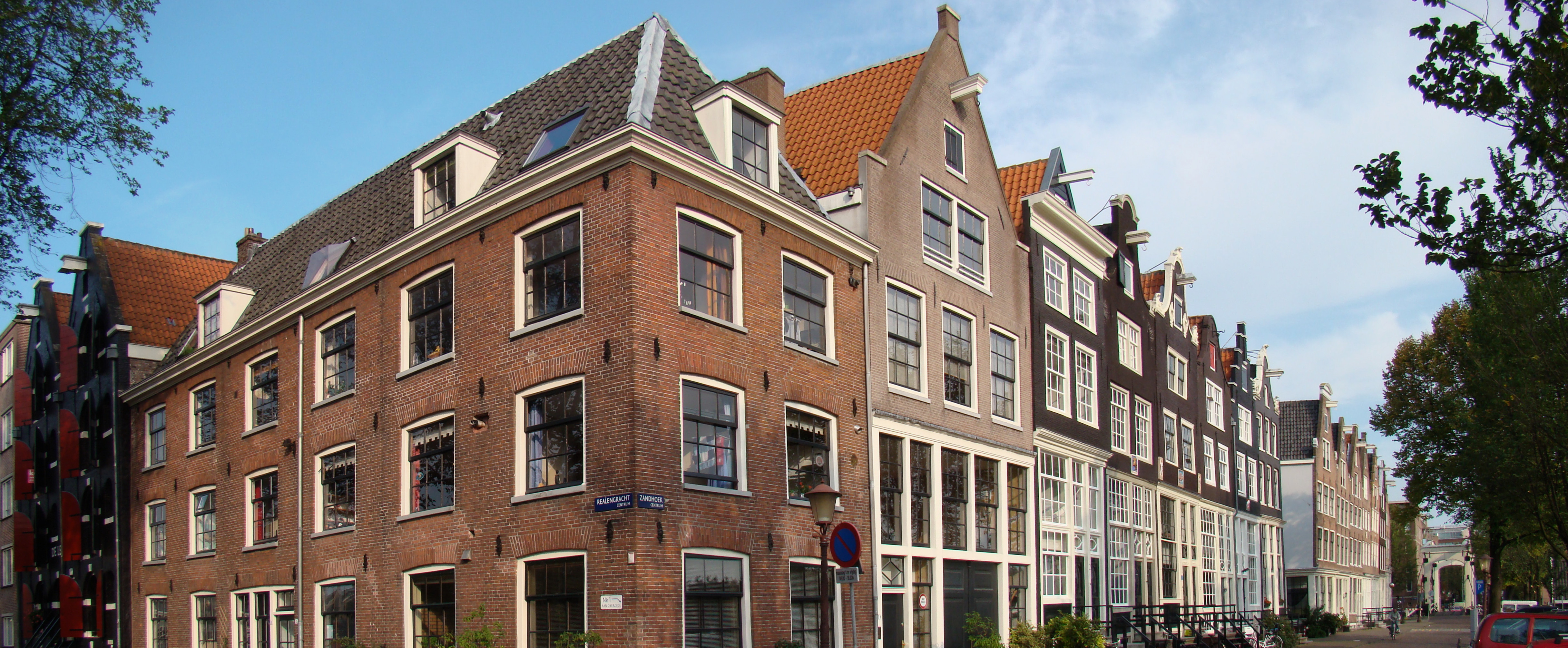 Realengracht-Zandhoek_Amsterdam